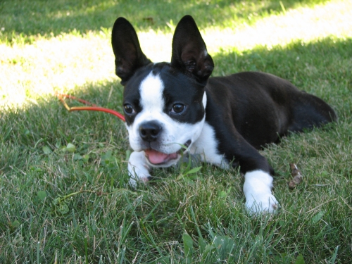 Boston Terrier Own Work